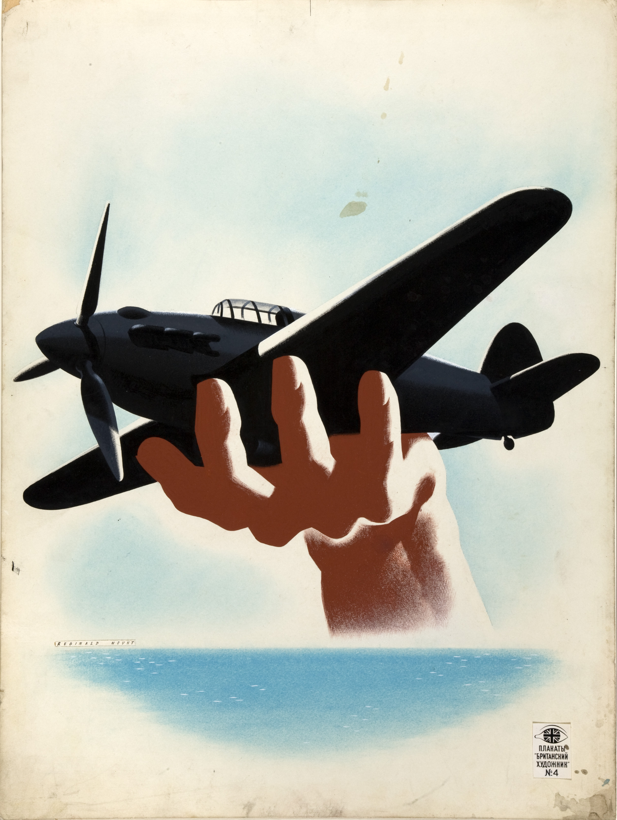 Aeroplane in hand, with wrist emerging from sea horizon